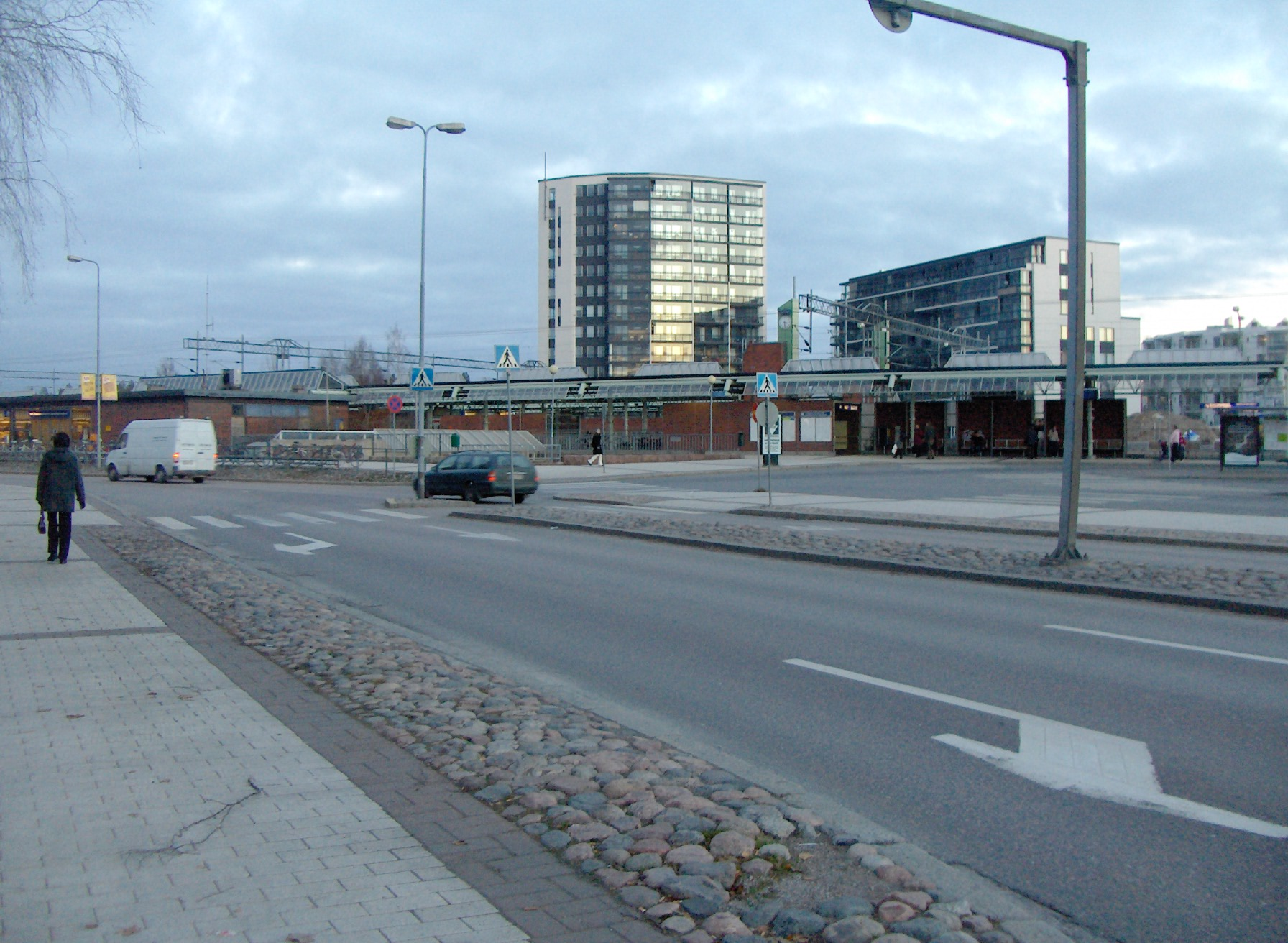 Tikkurila Railway Station in Vantaa, Finland